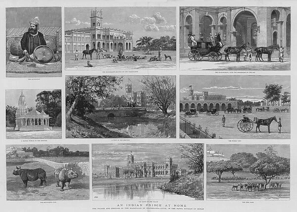 Centre spread showing Anand Bagh and its surrounding gardens, stables, etc.